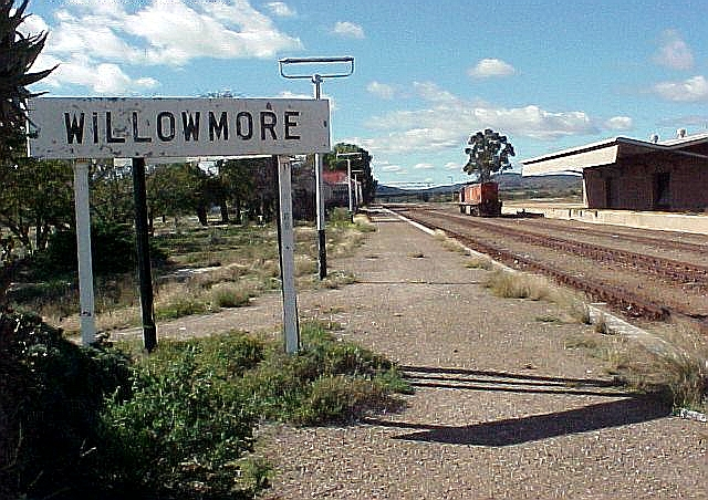 Willowmore station, Eastern Cape